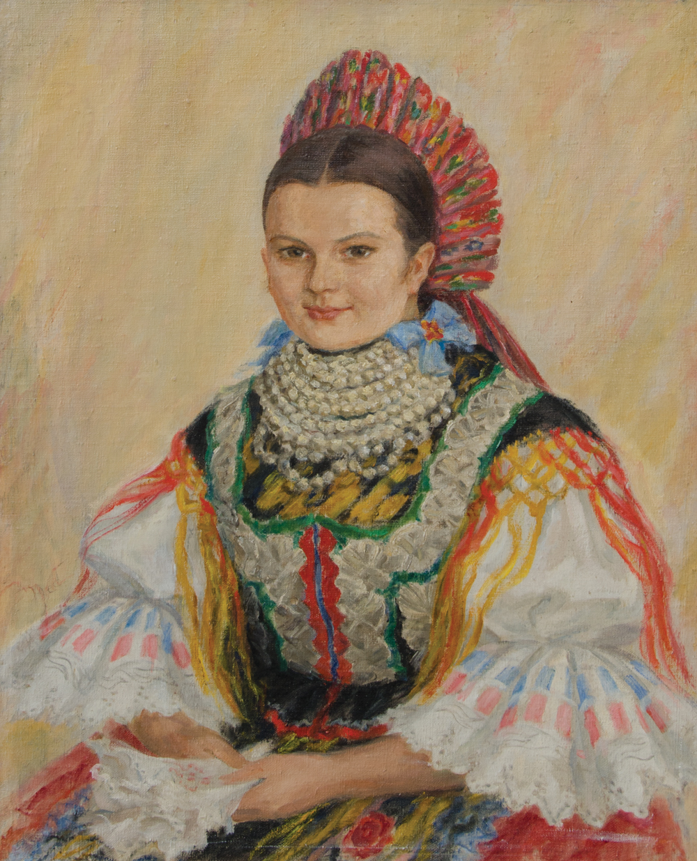 A painting done by Zuzka Medved'ova - Girl from Petrovec in a folk costume (oil on canvas). Inventory number 15.